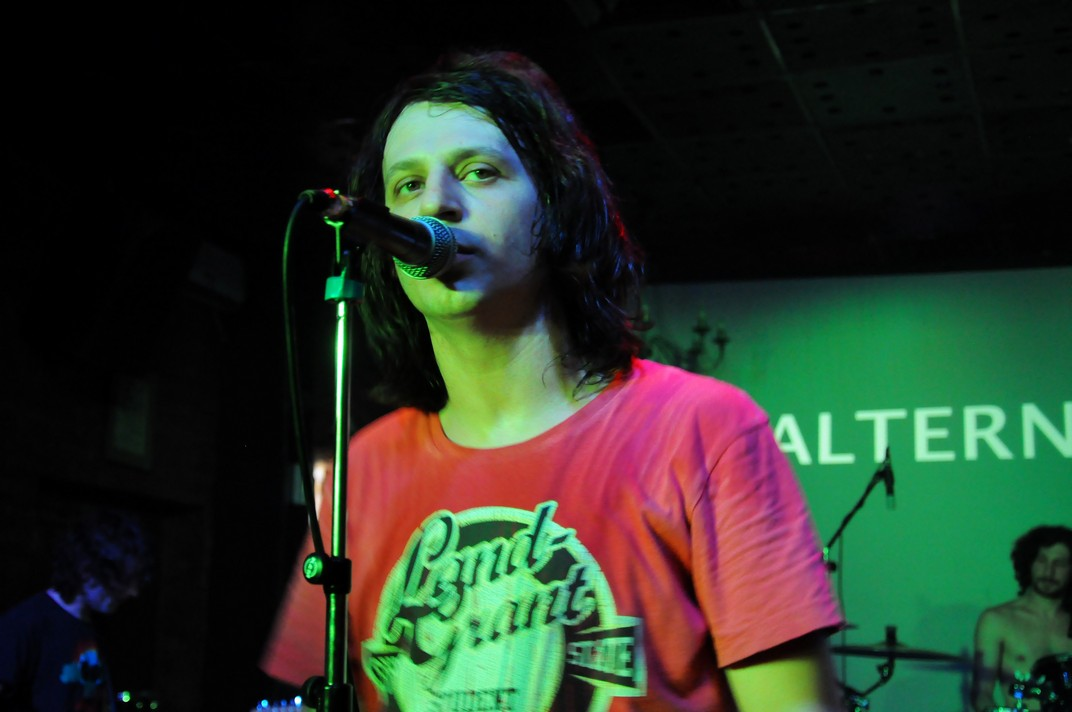 Marcel Bostan during a tour in Iași, Romania with Alternosfera